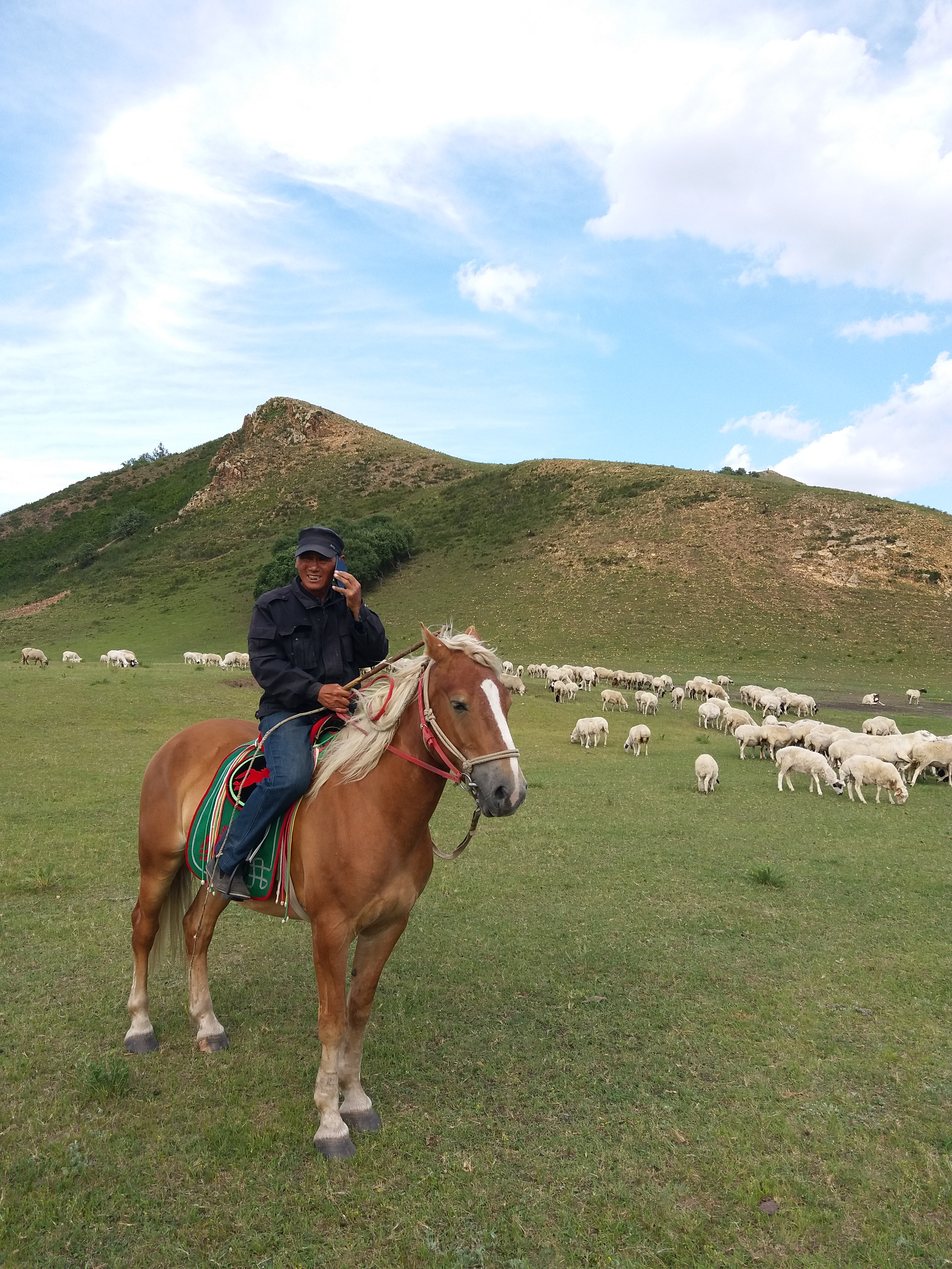 Herdsmen in Heshigten Banner, Inner Mongolia, near border with Hebei